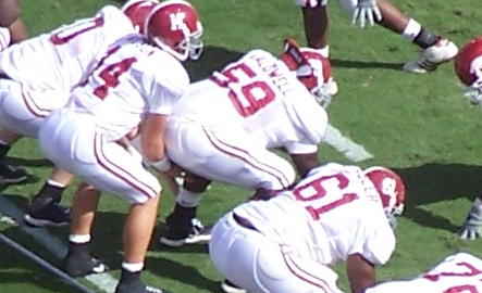 Center Antoine Caldwell (#59) prepares to snap the football to quarterback John Parker Wilson (#14). Also in the picture: right guard B. J. Stabler.